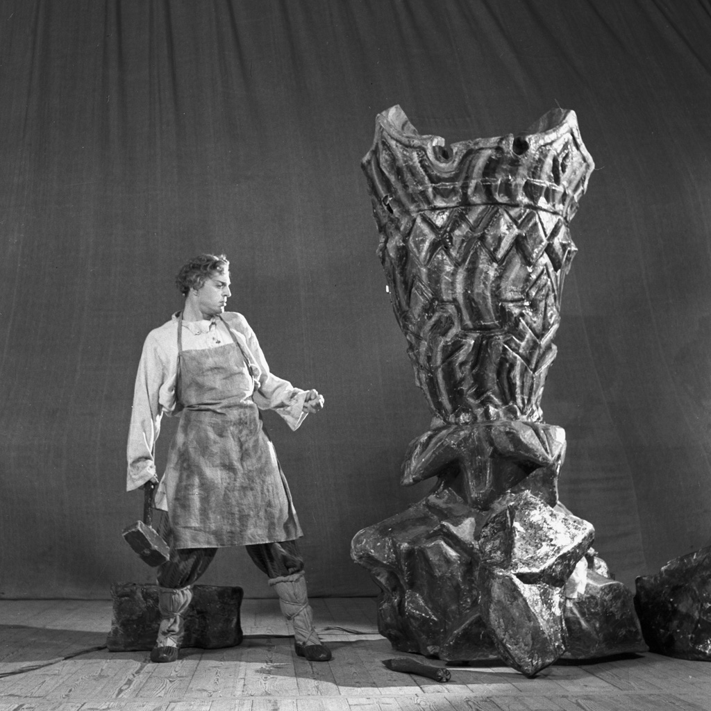 “Ballet dancer Vladimir Preobrazhensky in scene from ballet The Tale of the Stone Flower”. Vladimir Preobrazhensky as Danila in a scene from Sergei Prokofiev's ballet The Tale of the Stone Flower staged at the State Academic Bolshoi Theater of the USSR.